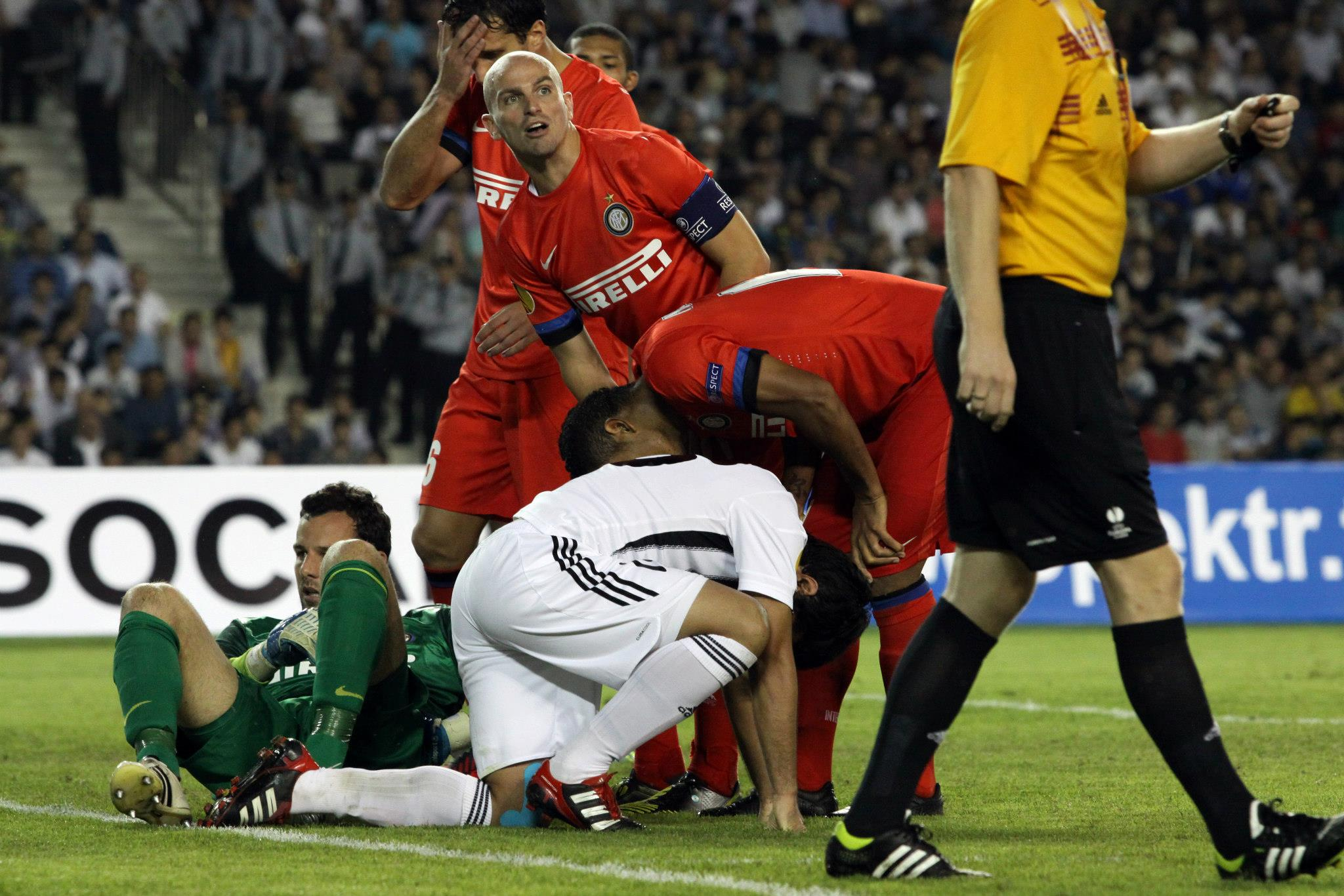 UEFA Europa League 2012-10-04 Neftchi Baku-FC Internazionale Milano.